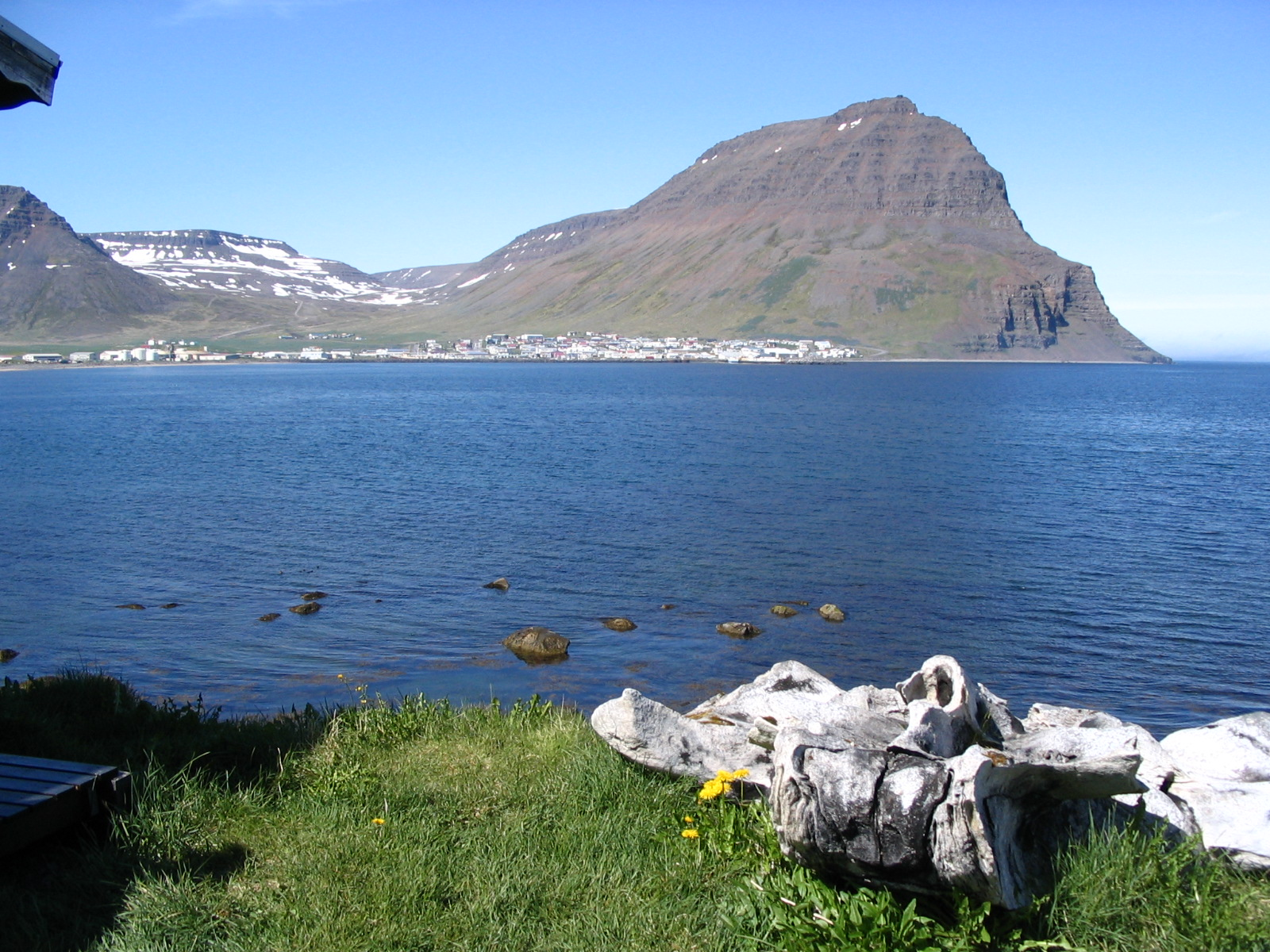 View towards Bolungarvík